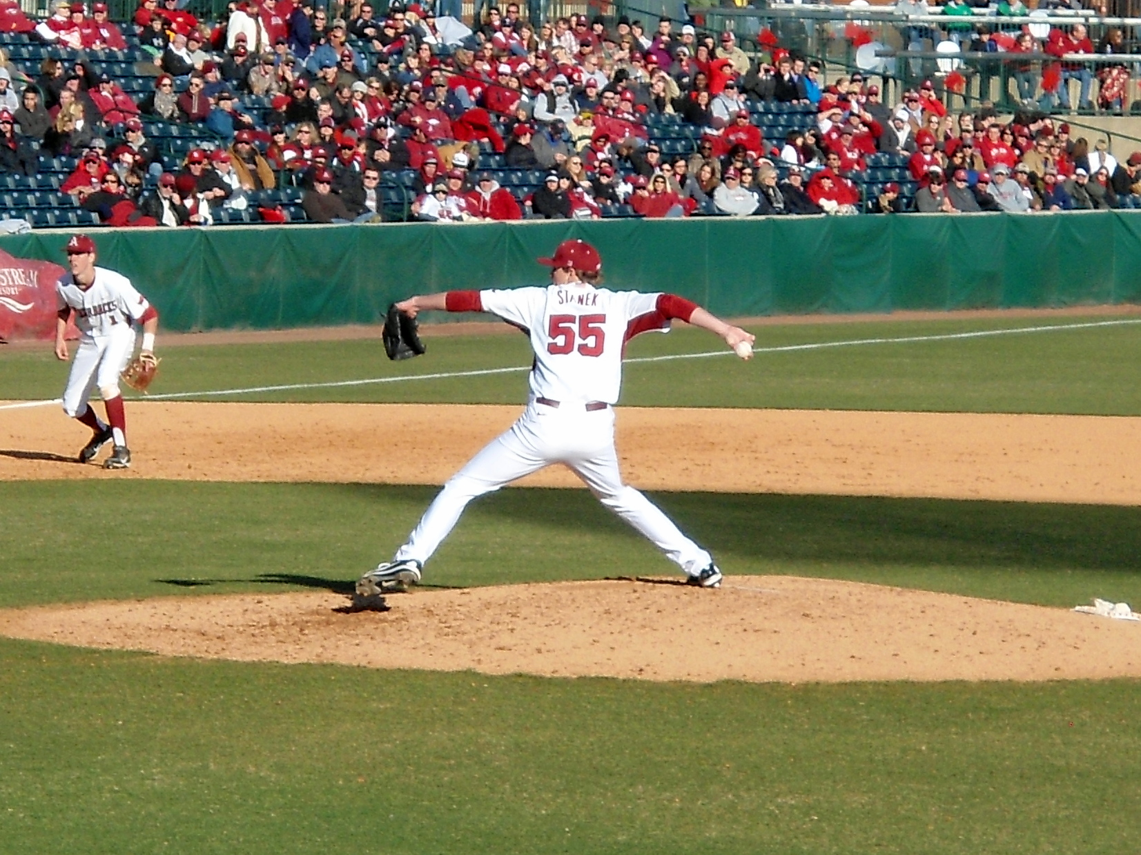 Ryan Stanek pitches for the Arkansas Razorbacks baseball team vs the Western Illinois Leathernecks in Baum Stadium, Fayetteville, Arkansas